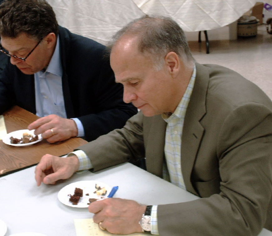 United States Senate candidate Mike Ciresi (foreground) with Al Franken at a Democratic Party event in Rochester, Minnesota in 2007.